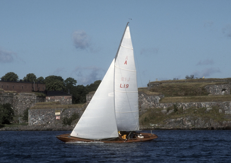 Finnish sailing boat Alien L 19 of Särklass A.